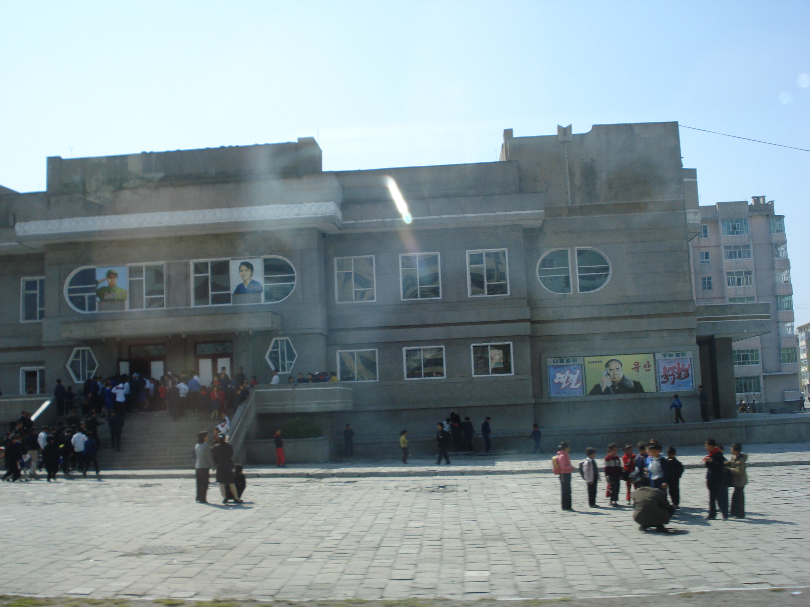 Primary School, DPR Korea